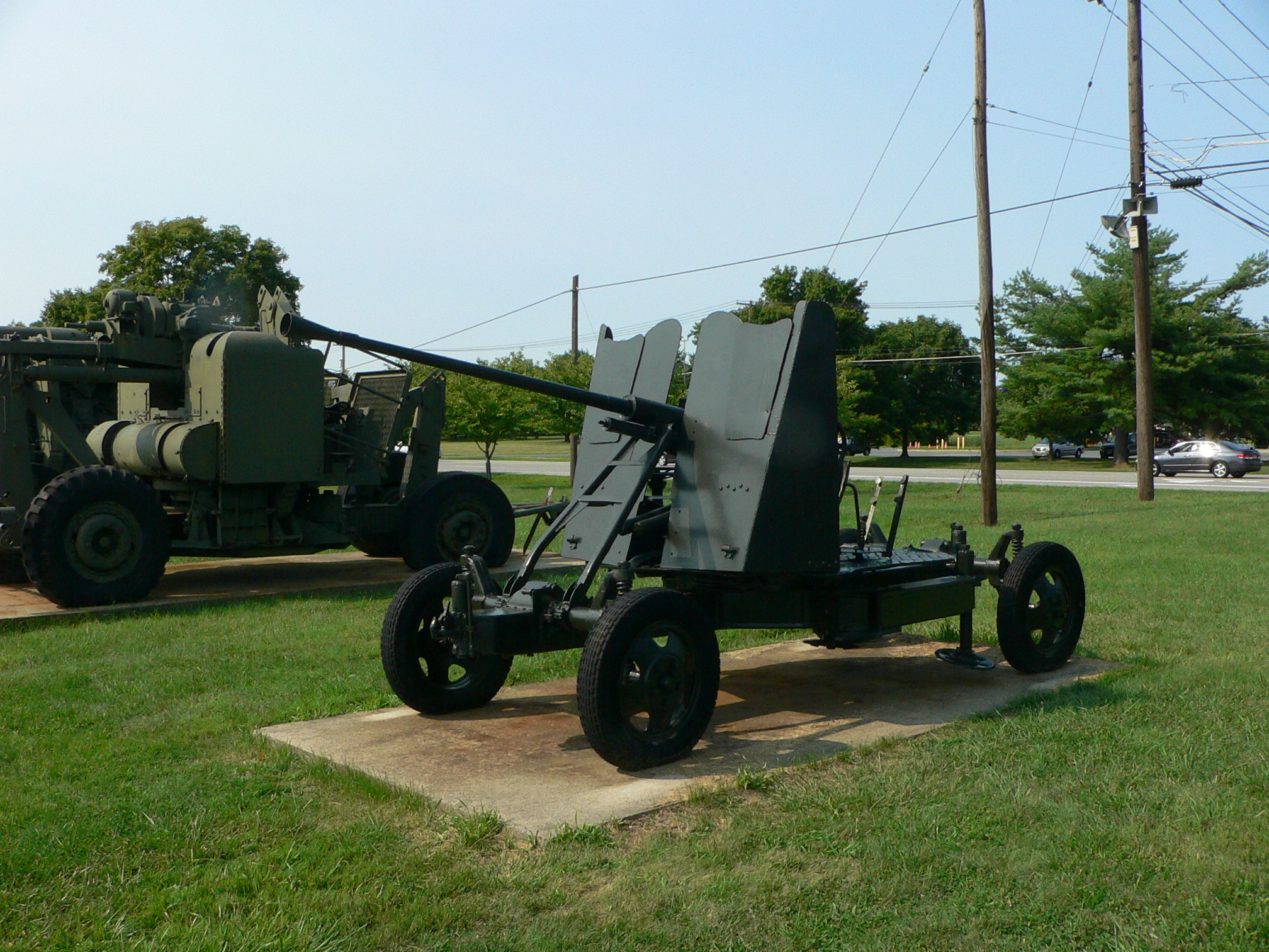 Picture taken by myself, Mark Pellegrini, at the United States Army Ordnance Museum (Aberdeen Proving Ground, MD) on August 14, 2007.